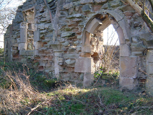 Part of the ruin of St James' church, Haughton, Nottinghamshire. The earliest parts of the building are 12th-century. The roof was lost in 1915.